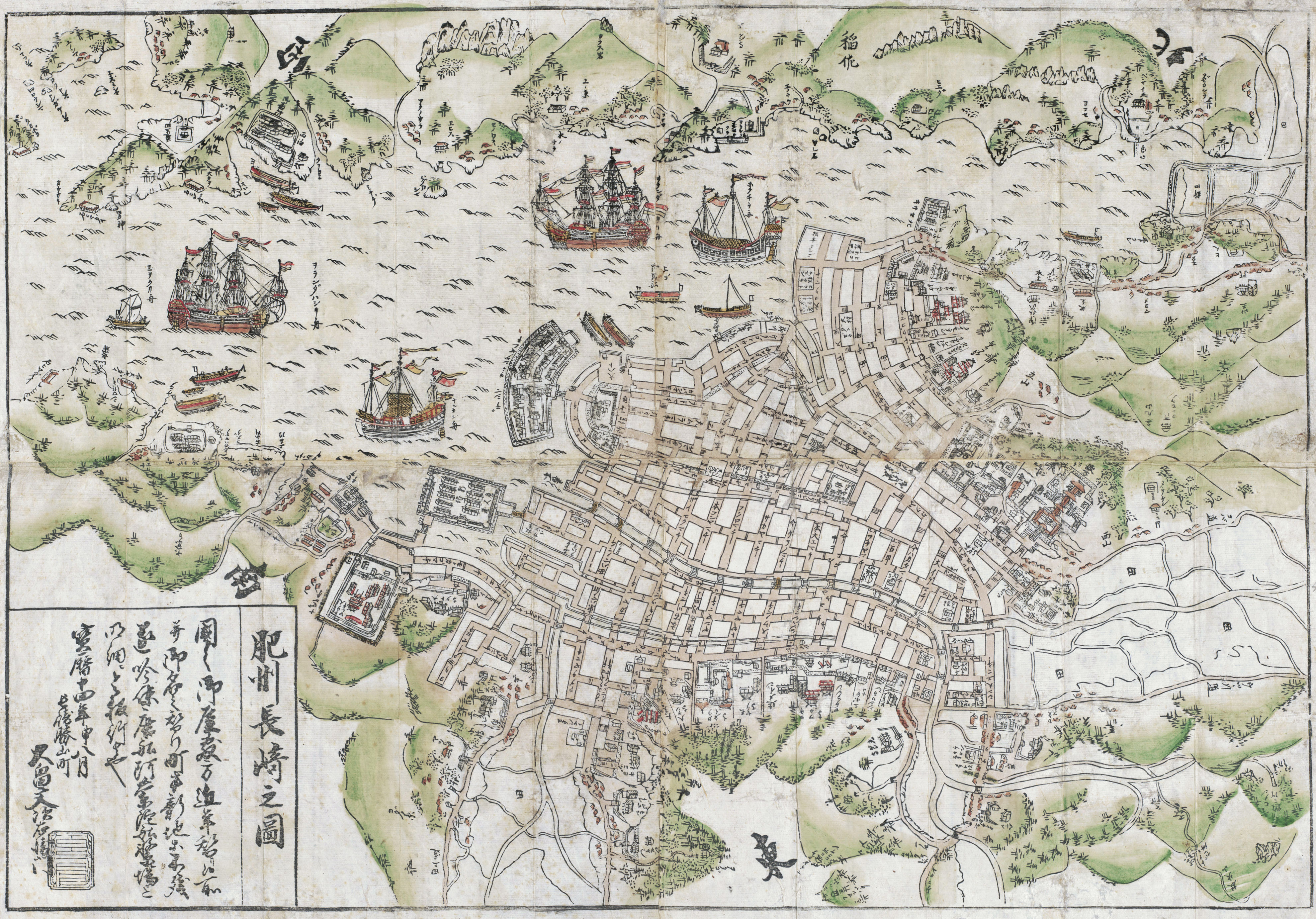 Map of the city of Nagasaki